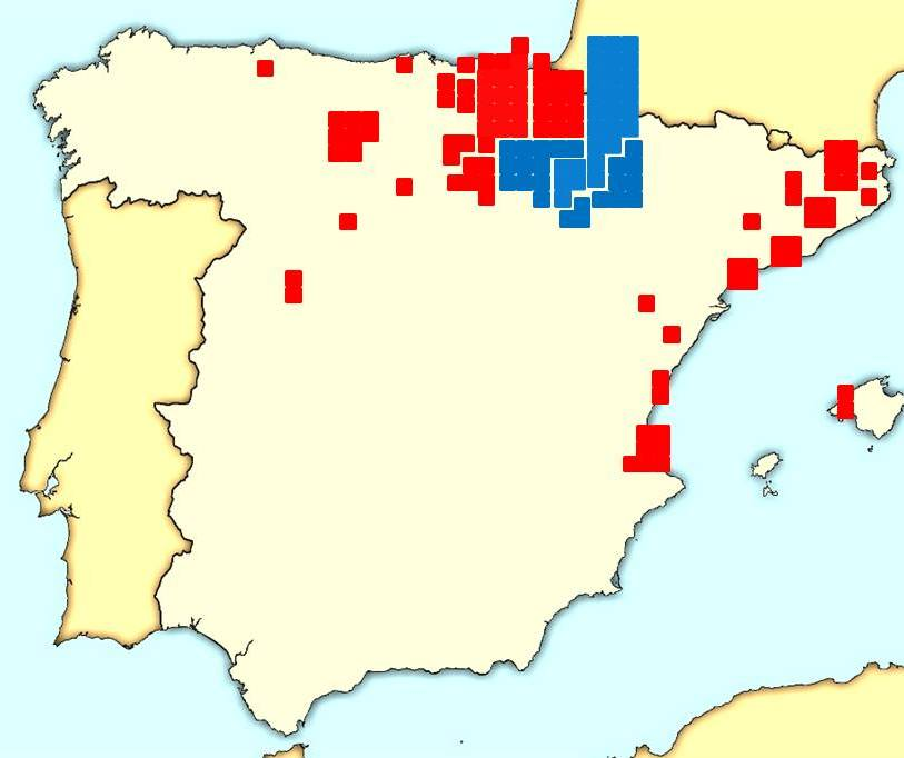 Carlist deputies elected to Cortes Generales during the Restauration period (1879-1923). Each little square represents one deputy. Each polygon represents one electoral district. Navarrese districts in blue. source: Índice Histórico de Diputados available at